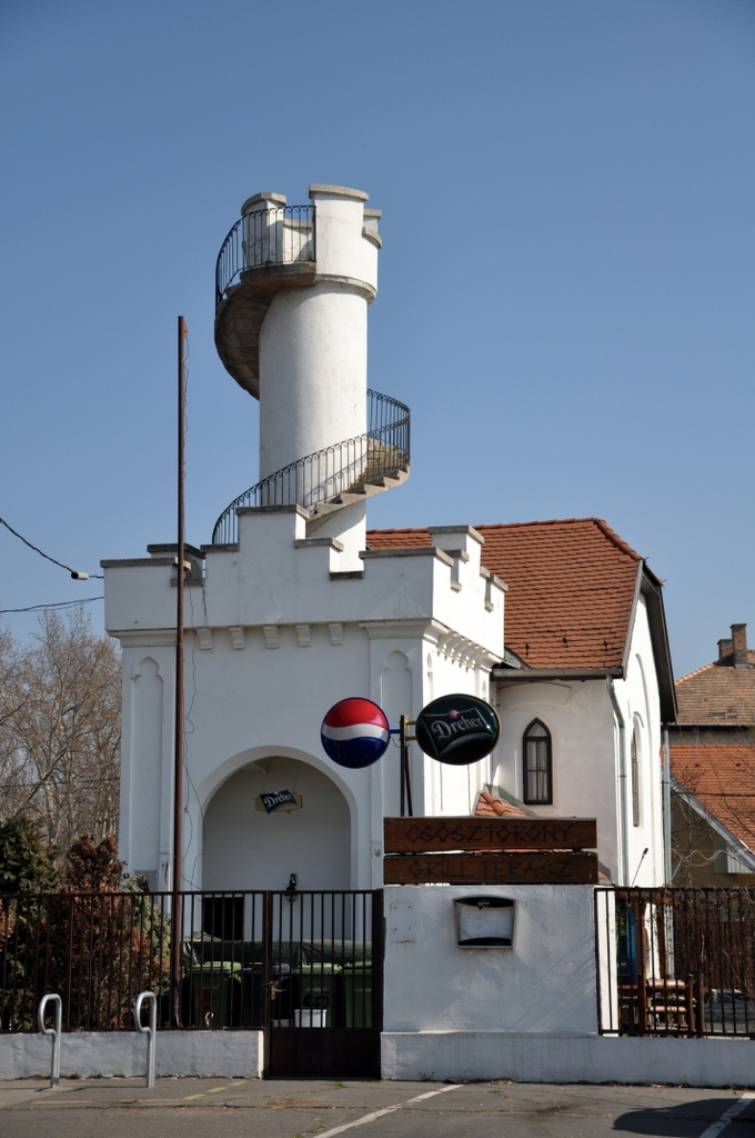 Csősztorony in Budapest District X This is a photo of a monument in Hungary, Identifier: 1080